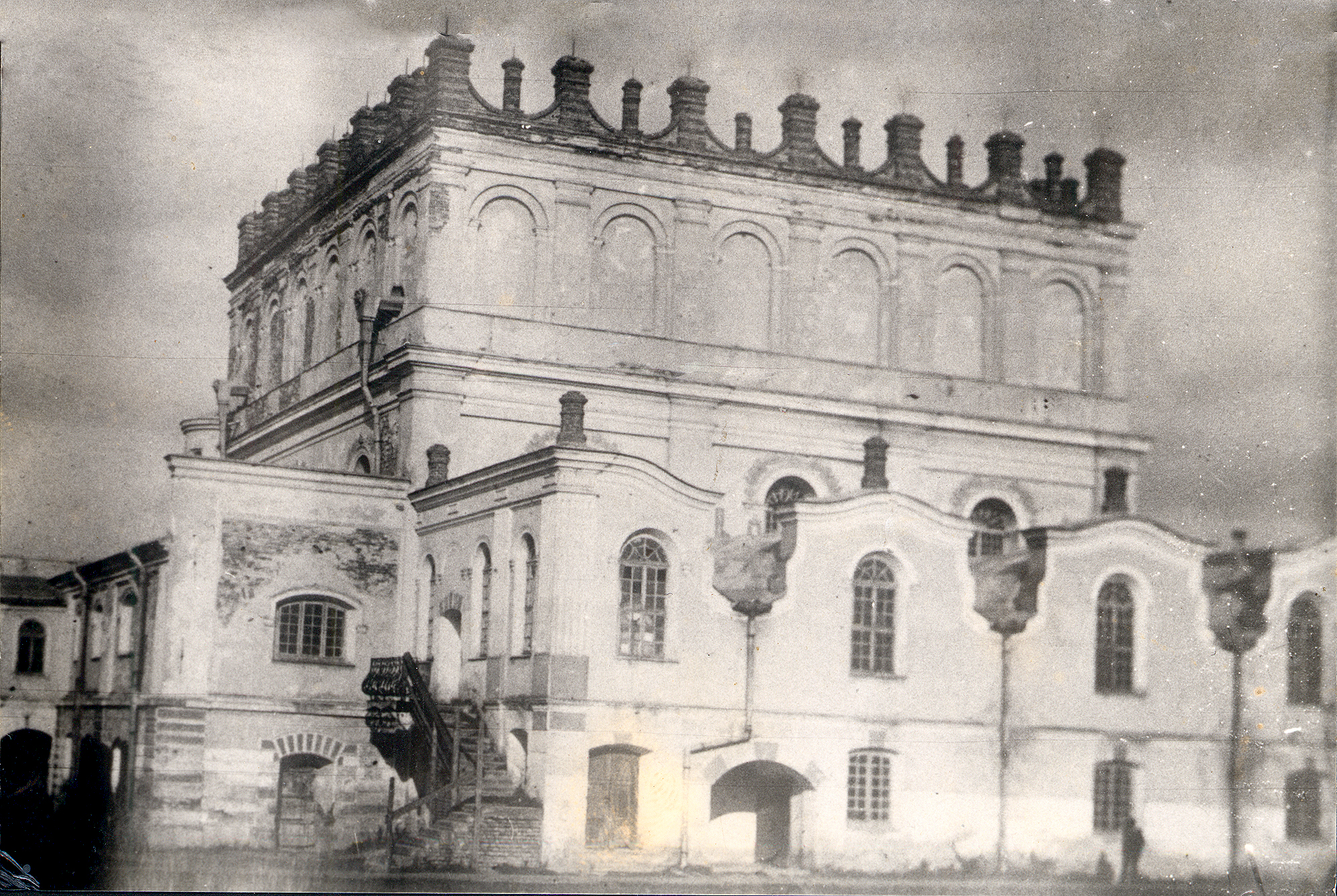 The Great Synagogue in Belz